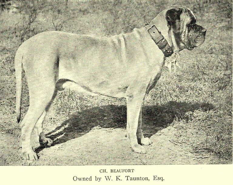 picture of a 19th century champion Mastiff